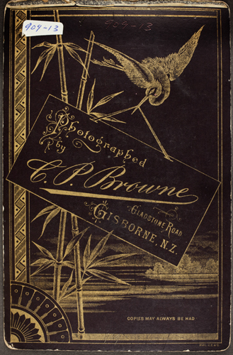 Cabinet portrait on mount